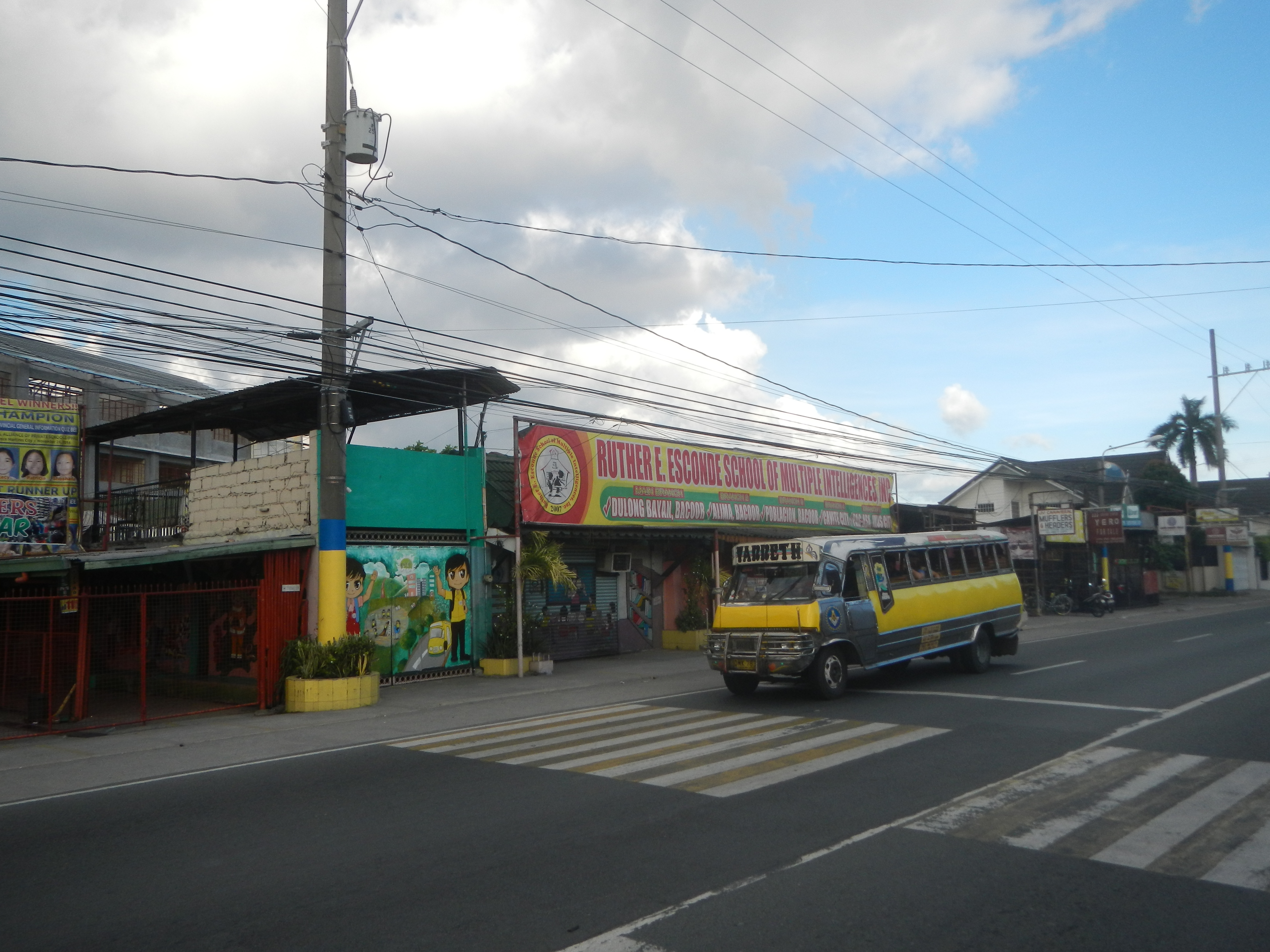 MW Massway Department Store (Binakayan, Kawit, Cavite) Antero Soriano Highway General Tirona Highway (Binakayan, Kawit, Cavite) Kawit, Cavite (Note: Judge Florentino Floro, the owner, to repeat, Donor Florentino Floro of all these photos hereby donate gratuitously, freely and unconditionally Judge Floro all these photos to and for Wikimedia Commons, exclusively, for public use of the public domain, and again without any condition whatsoever).